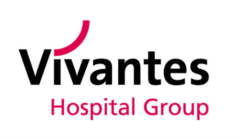 Vivantes Logo.PNG